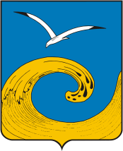 Glafirovskoe (Krasnodar krai), coat of arms